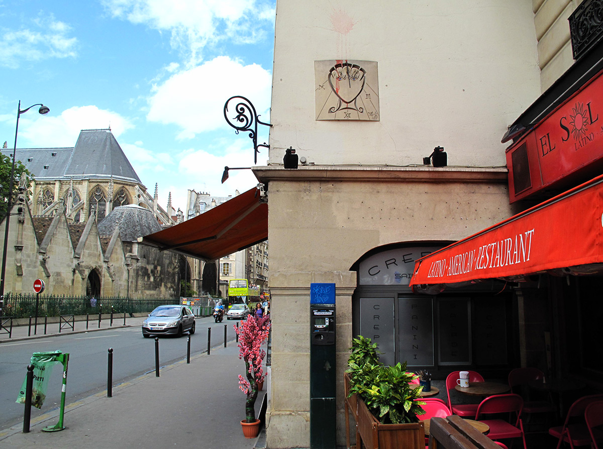 A sundial painted by Salvador Dali, 27 Rue Saint-Jacques, Paris